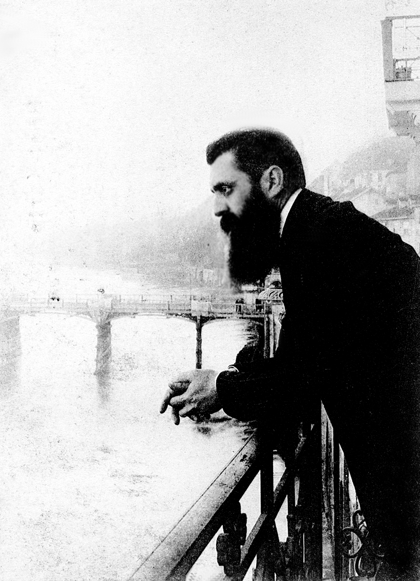 Theodor Herzl leaning over the balcony of the Hotel Les Trois Rois (Three King's hotel / Hotel drei Könige) in Basel, Switzerland, possibly during the Sixth Zionist conference there (see here)